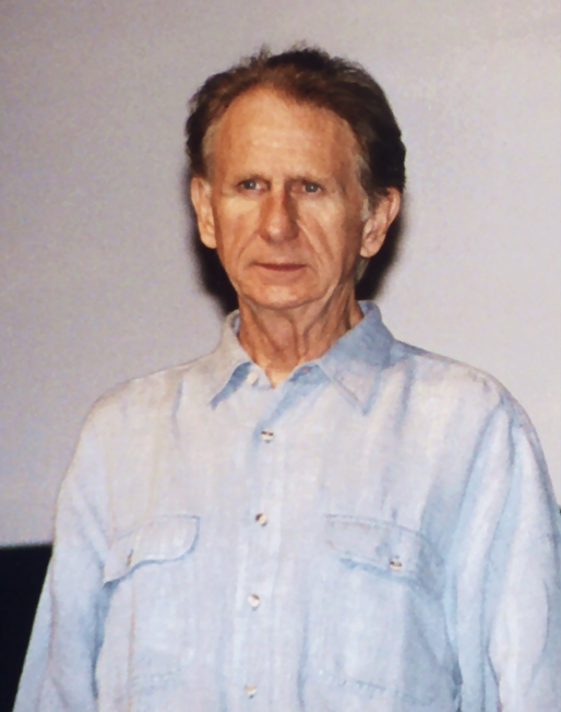 American actor René Auberjonois at the Galileo7-Convention in Neuss, Germany, 2004.